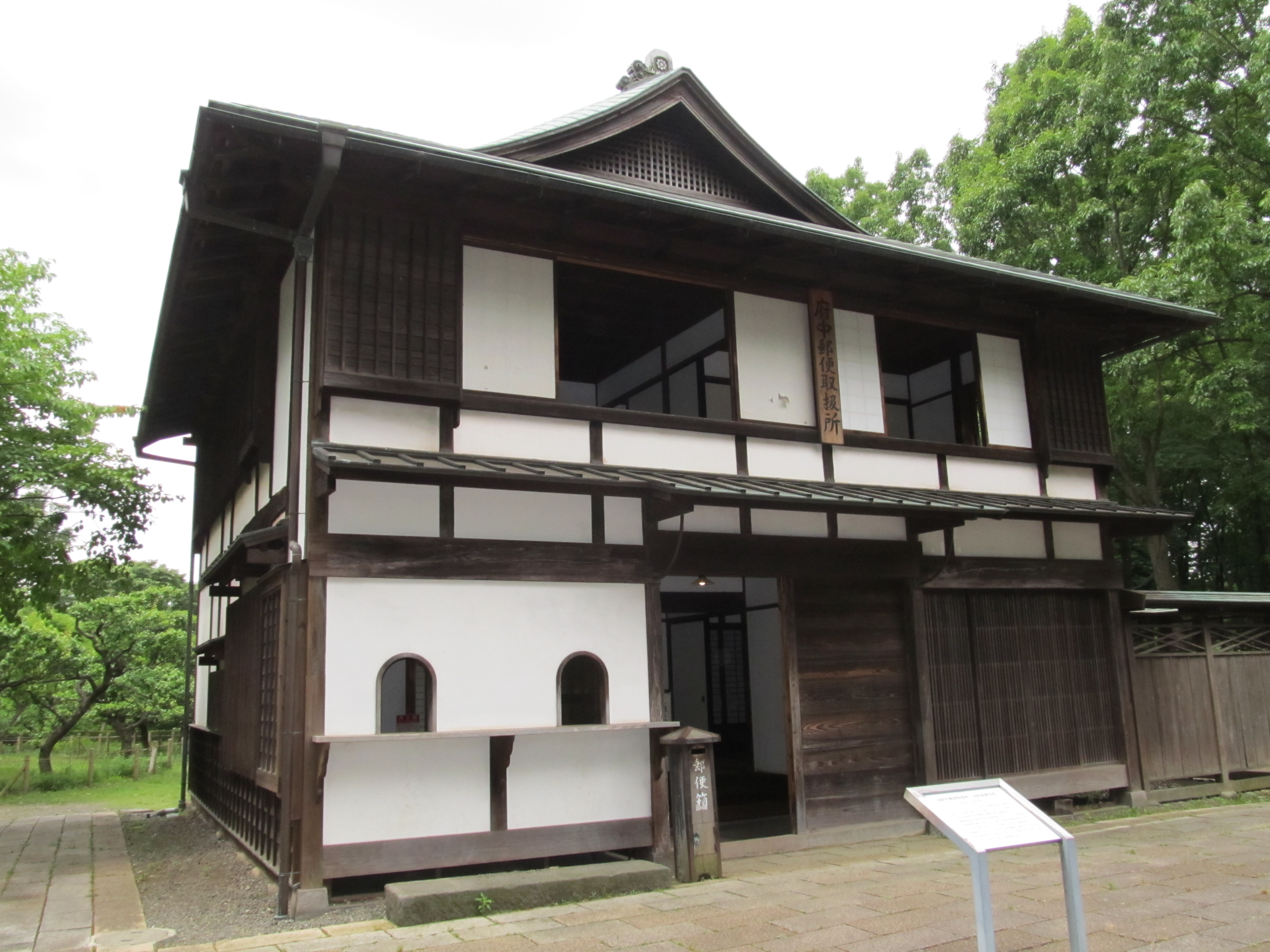 Former Fuchu Post Office in the Kyōdo-no-mori open-air museum, in Fuchu, Tokyo, Japan